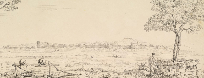 Ahmednagar fort walls